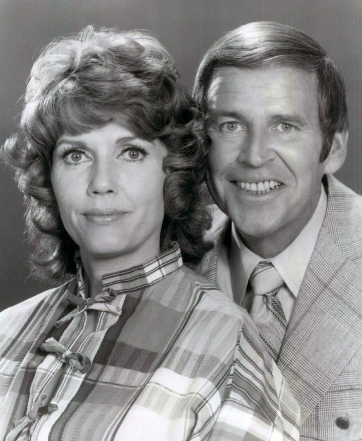 Photo of Elizabeth Allen and Paul Lynde from the television program The Paul Lynde Show.